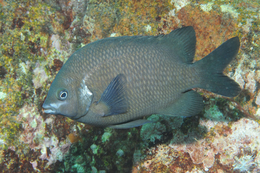 An adult White-ear, Parma microlepis, in Pumphouse Bay, Gabo Island, Victoria.